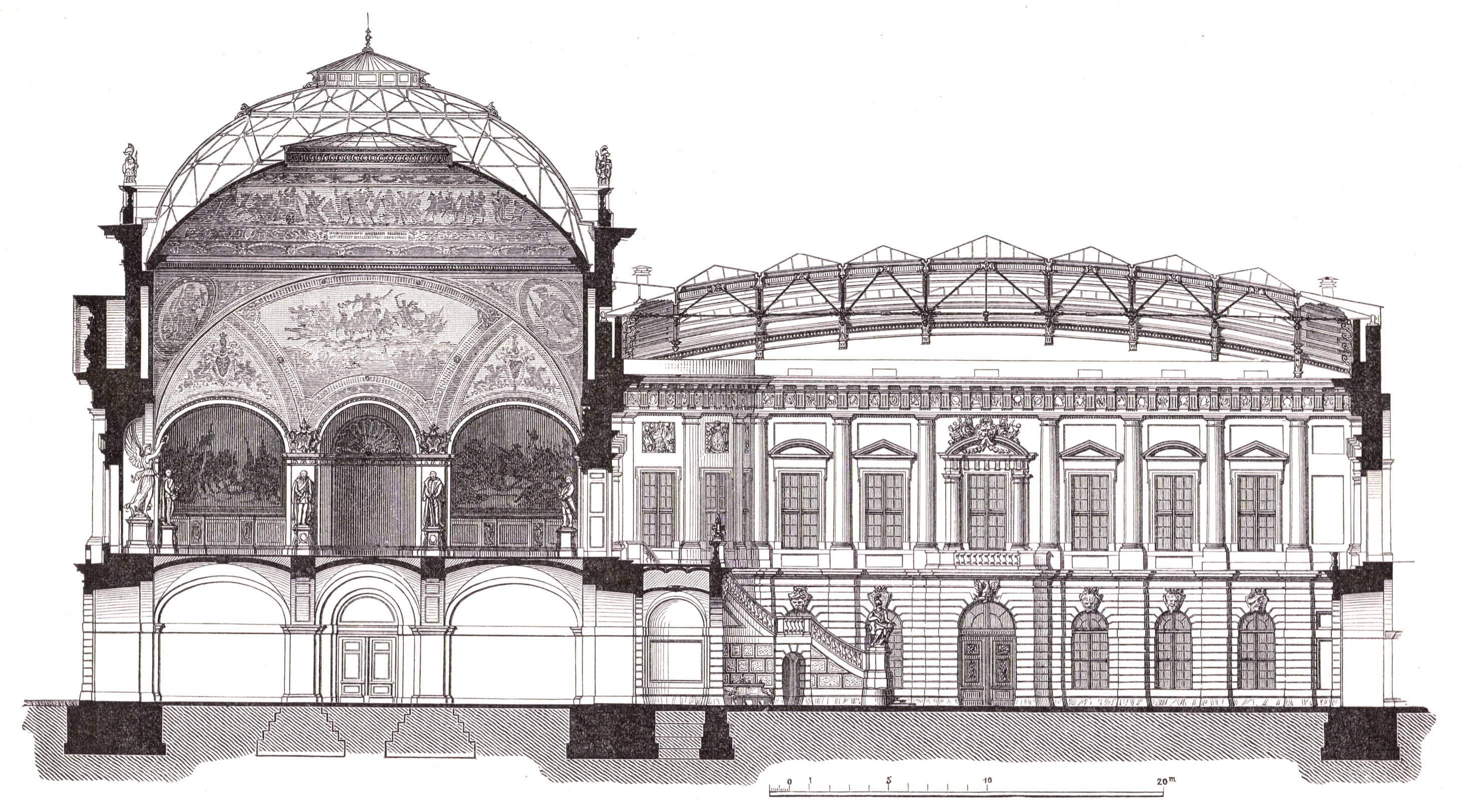 Berlin - Zeughaus, section after modification by Friedrich Hitzig 1877-1880